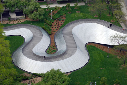 The BP Pedestrian Bridge — by Frank Gehry, in Chicago. This is my view from my cubicle. A bridge in Chicago from Millennium Park to Grant Park. I placed this on the map for everyone :)